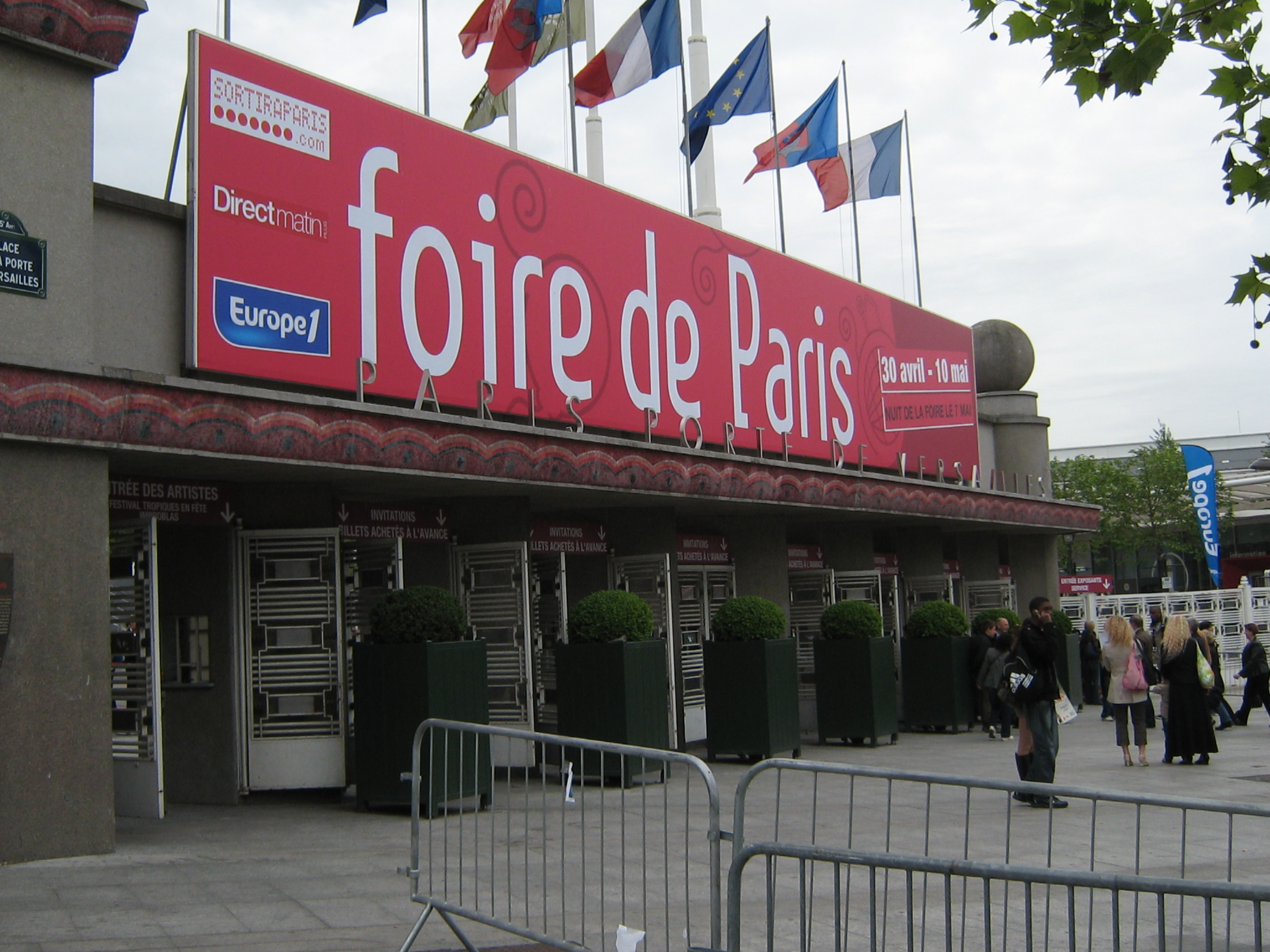 Entrance of the Parc des exposition during the 2009 Foire de Paris